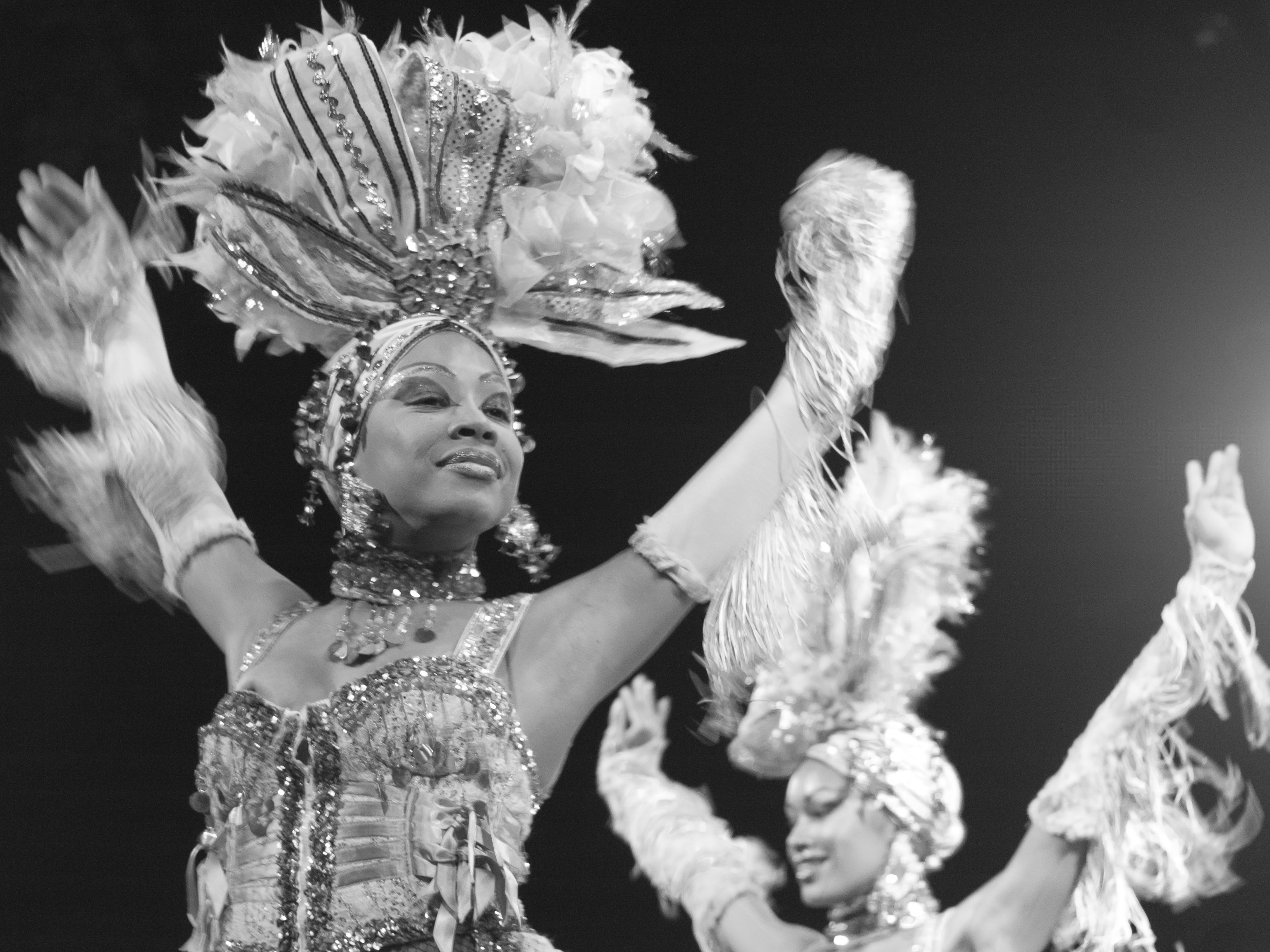 Tropicana dancers, image by Marjorie Kaufman